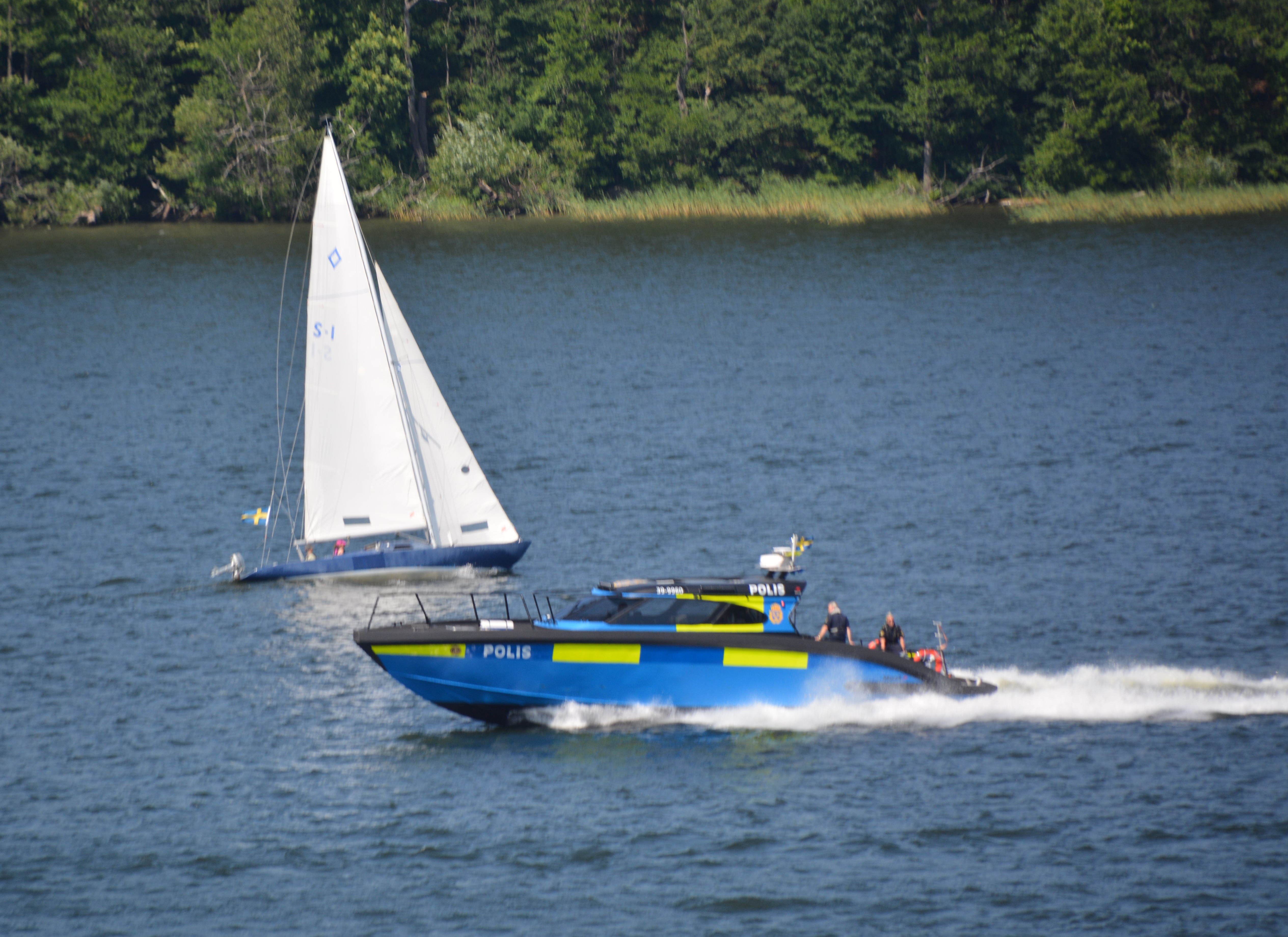 Marell M15 patrol boat on lake Mälaren, Sweden